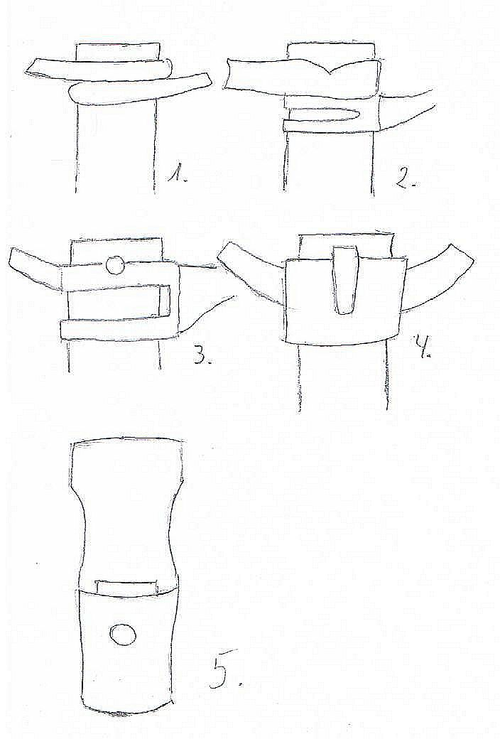 Sword belts